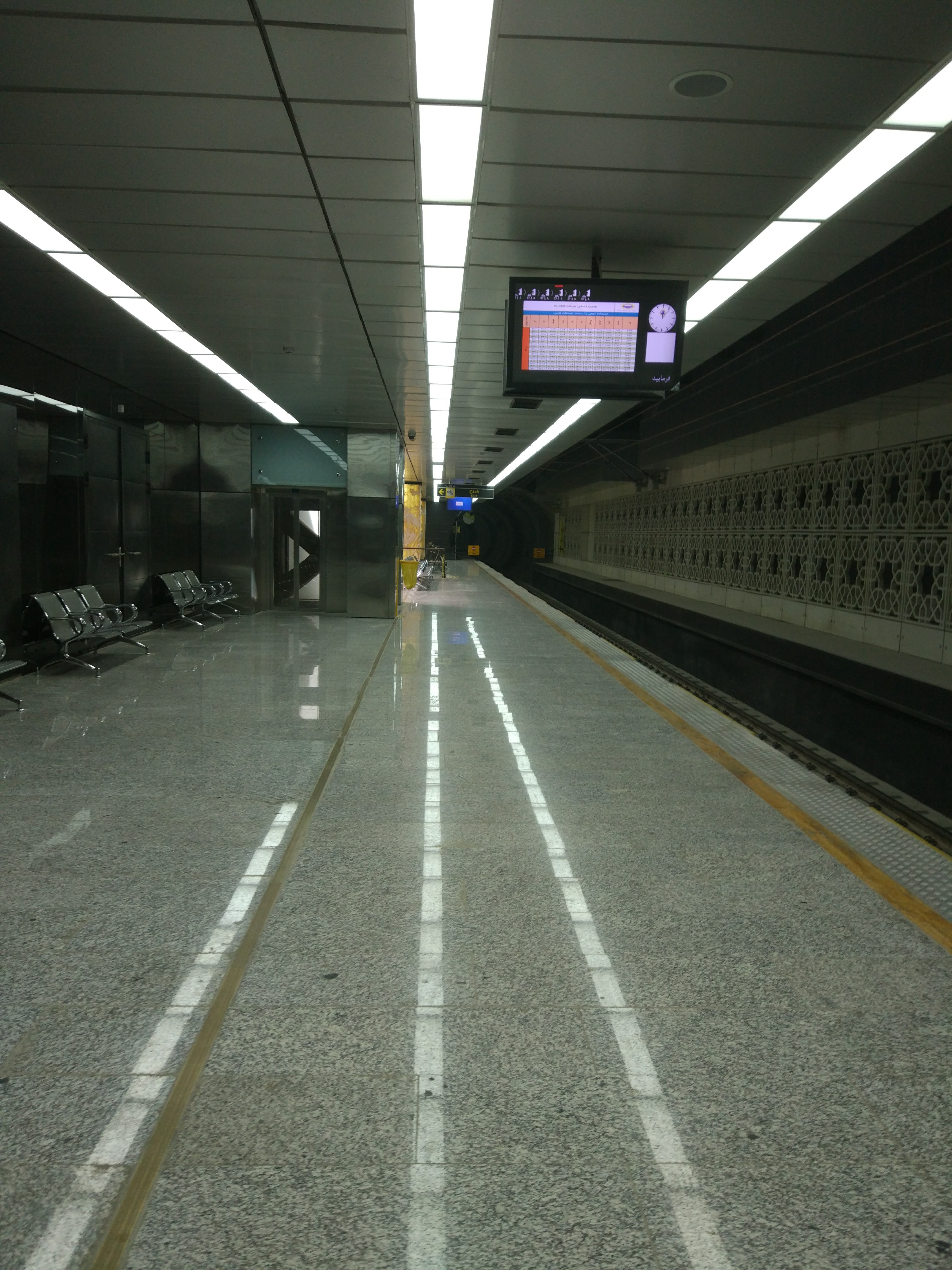 Isfahan's metro Takhty station